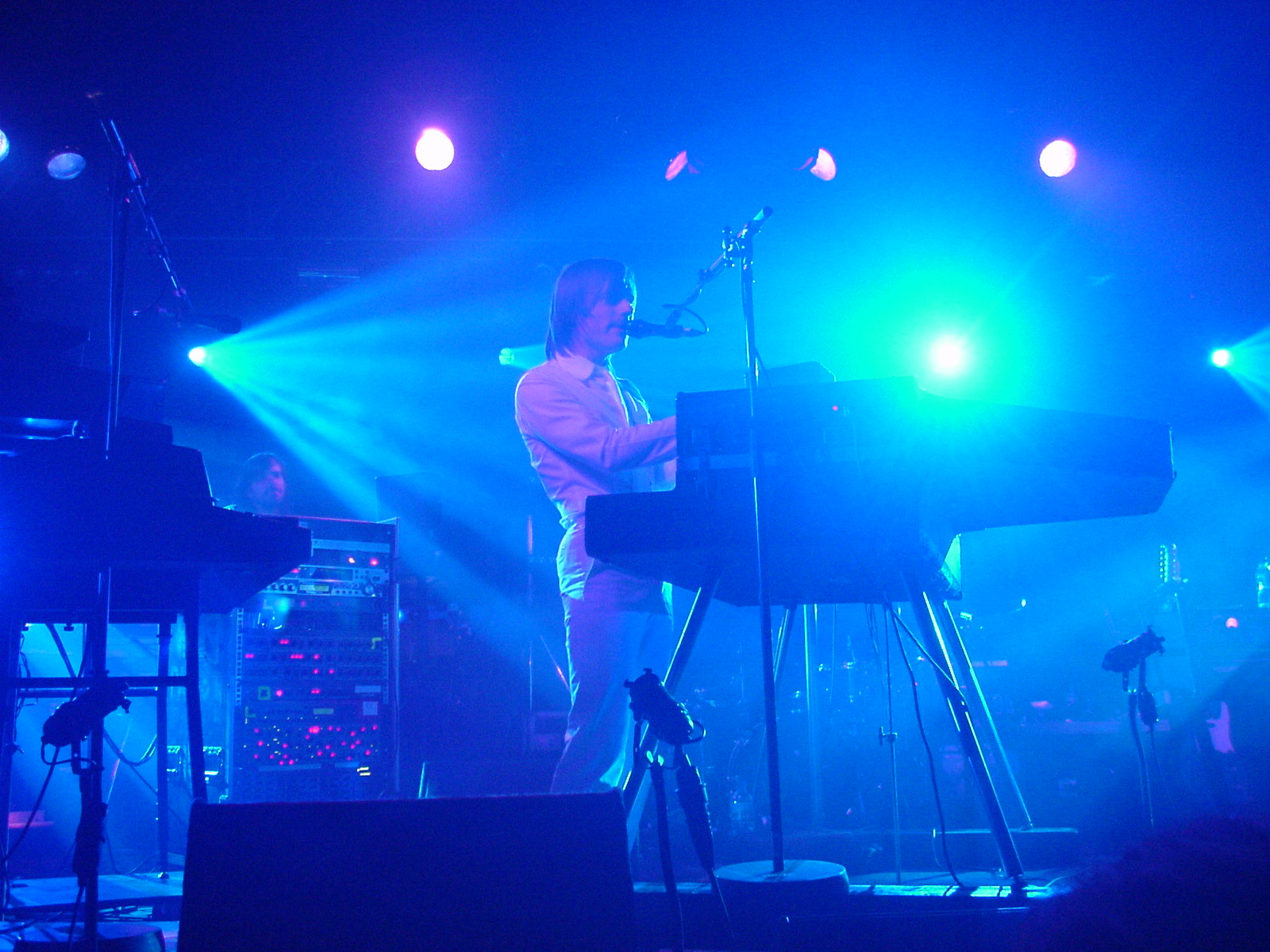 JB Dunckel at Manchester Academy